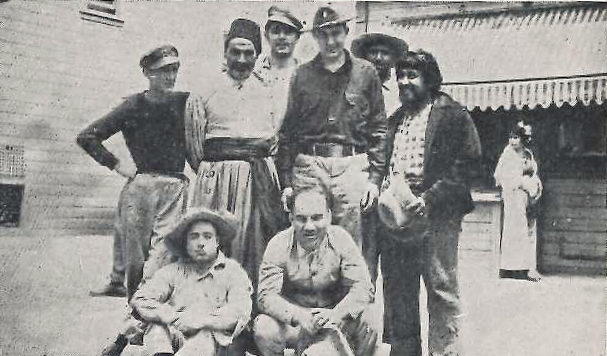 This is a black and white photo taken privately on the set of the movie Across The Pacific (1926).